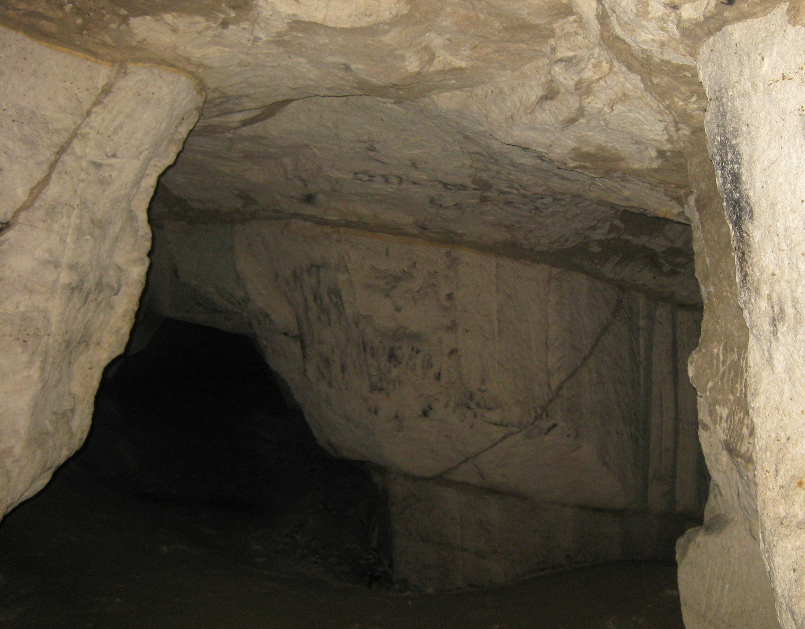 Tykarpsgrottan